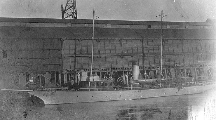 The United States Navy patrol vessel USS Thetis (SP-391) in port during World War I, photographed by one of her quartermasters.